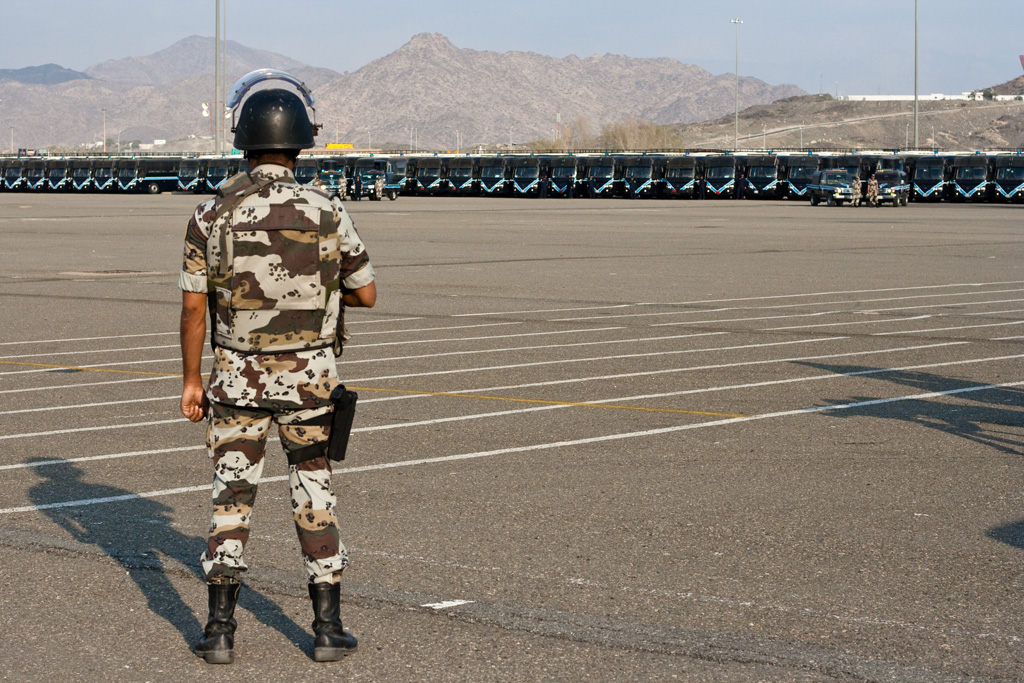 Photo by Omar Chatriwala